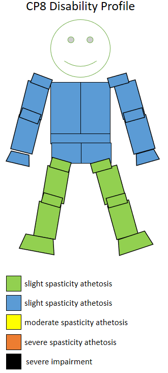 This image descriptions the spasticity athetosis level of a CP8 CP-ISRA classified sports person with cerebral palsy. It was created using information from .